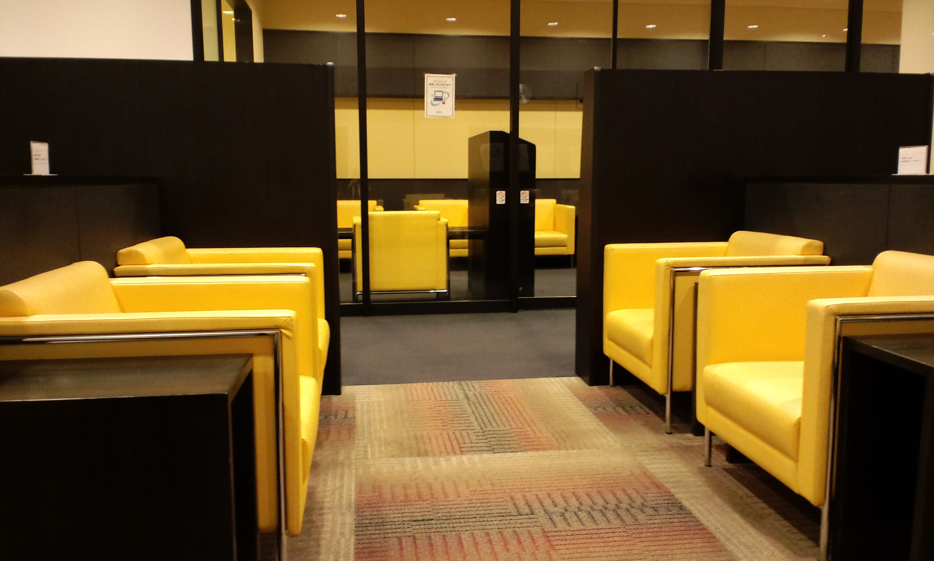 HAKODATE airport lounge